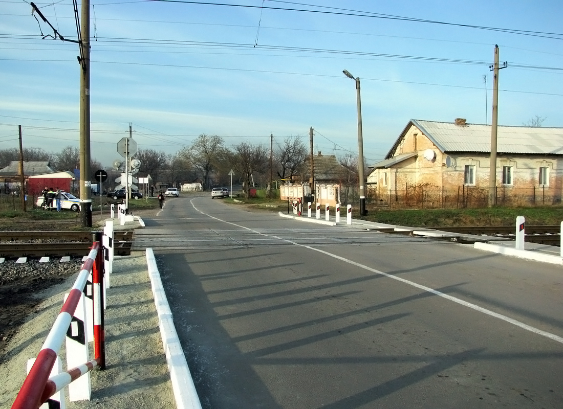 Место столкновения ВЛ8-1583 и "Эталона" в Марганце, Украина